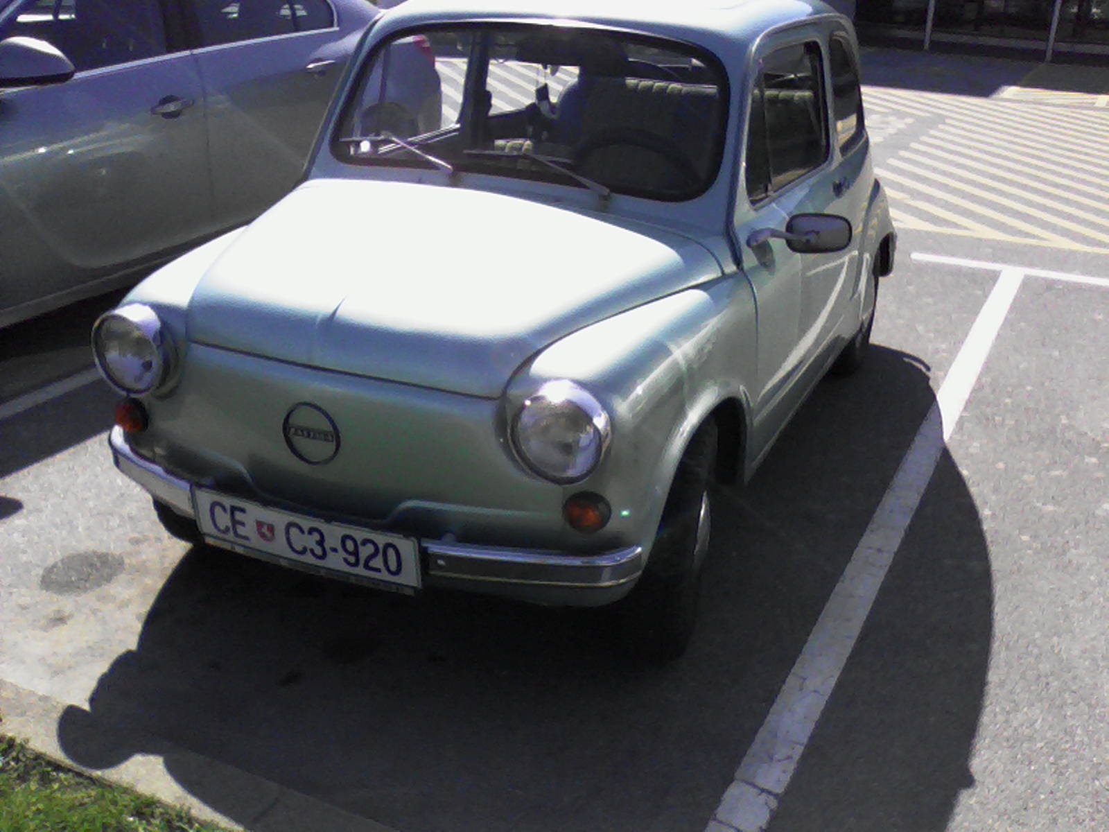 Crvena zastava 750 (Fiat 500) by Crvena zastava, Kragujevac, Yugoslavia